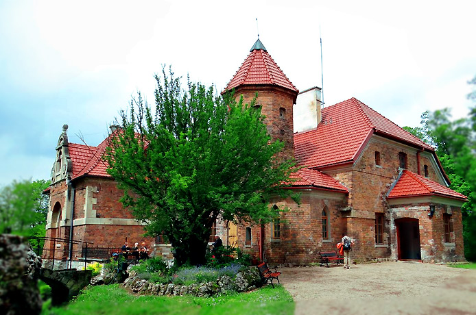 Żądło-Dąbrowski z Dąbrówki herbu (coat of arms) Radwan family manor in Michałowice village, Michałowice rural administrative district, Kraków county, Lesser Poland province, POLAND, EUROPEAN UNION; The initial manor proprietors were Tadeusz Jerzy Beniamin Żądło-Dąbrowski z Dąbrówki herbu Radwan (1829 - 1903), army major, and his wife Maria, née Rostworowska herbu Nałęcz (1842 - 1927).